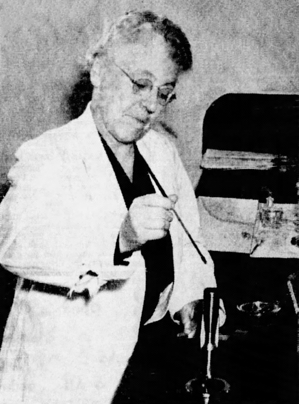 Provincial forensic pathologist Dr. Frances G. McGill is shown working in her laboratory (Regina, Saskatchewan, Canada).